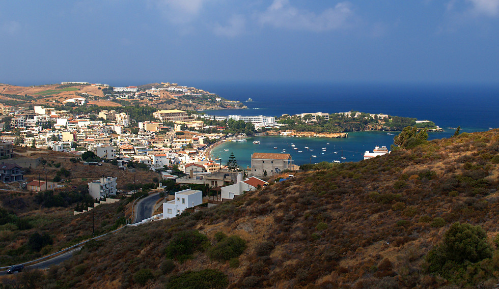 Agia Pelagia, Crete